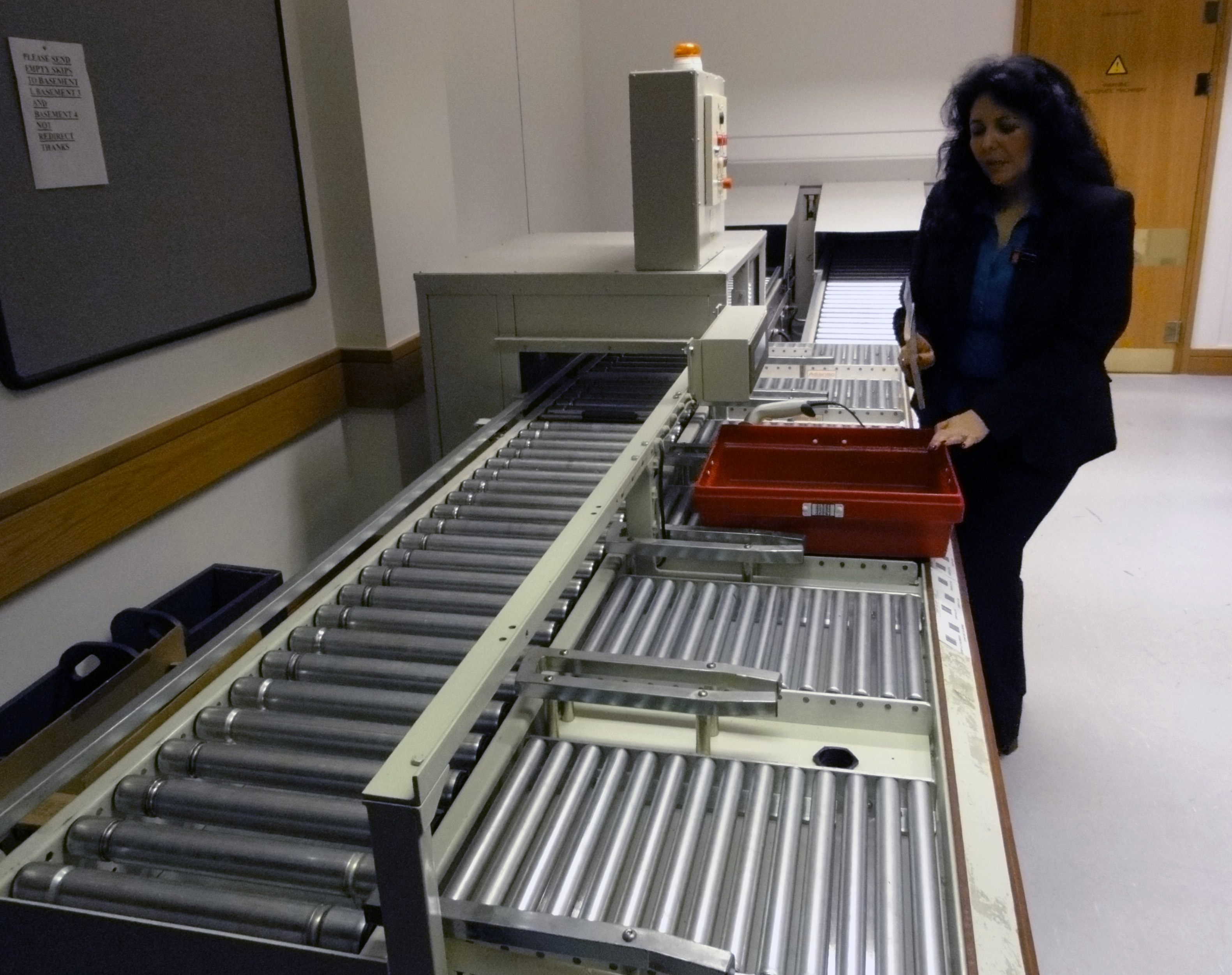 Demonstration of the book transport system used behind the scenes at the British Library. The system is known as MBHS, Mechanical Book Handling System. Photograph taken during a tour as part of the British Library editathon with permission of the BL staff member.